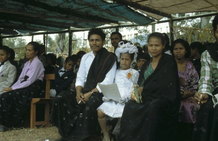 A First Holy Communion celebration at Bobo